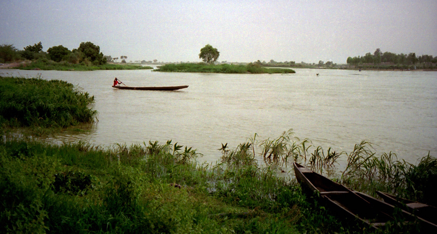 Typical canoe on the Niger River, in Niger. Photographed 1997.1997 #270A-24 Niger River